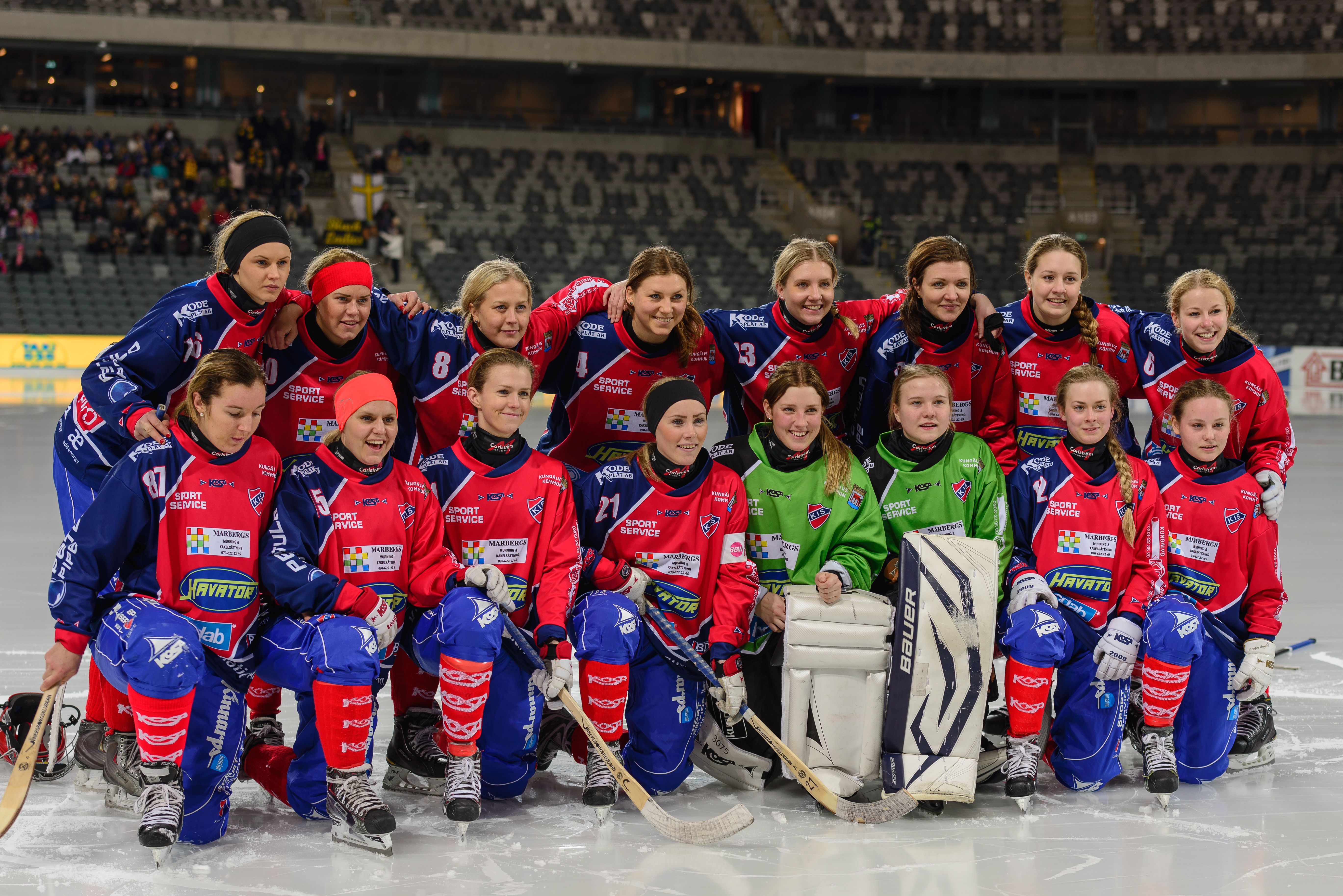 Kareby IS before the Swedish championship in bandy, finale (women). Kaleby 3 vs AIK 1.